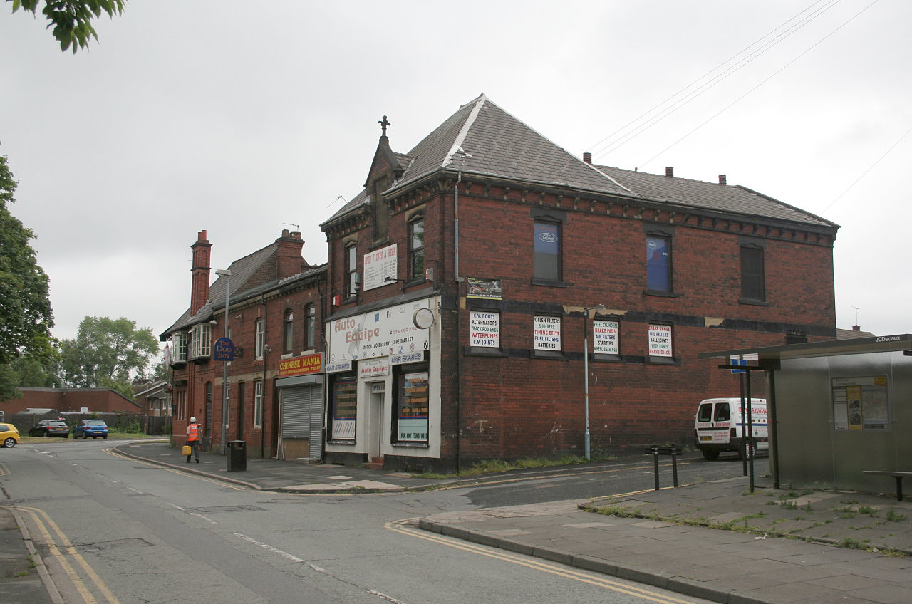 Former Cooperative store